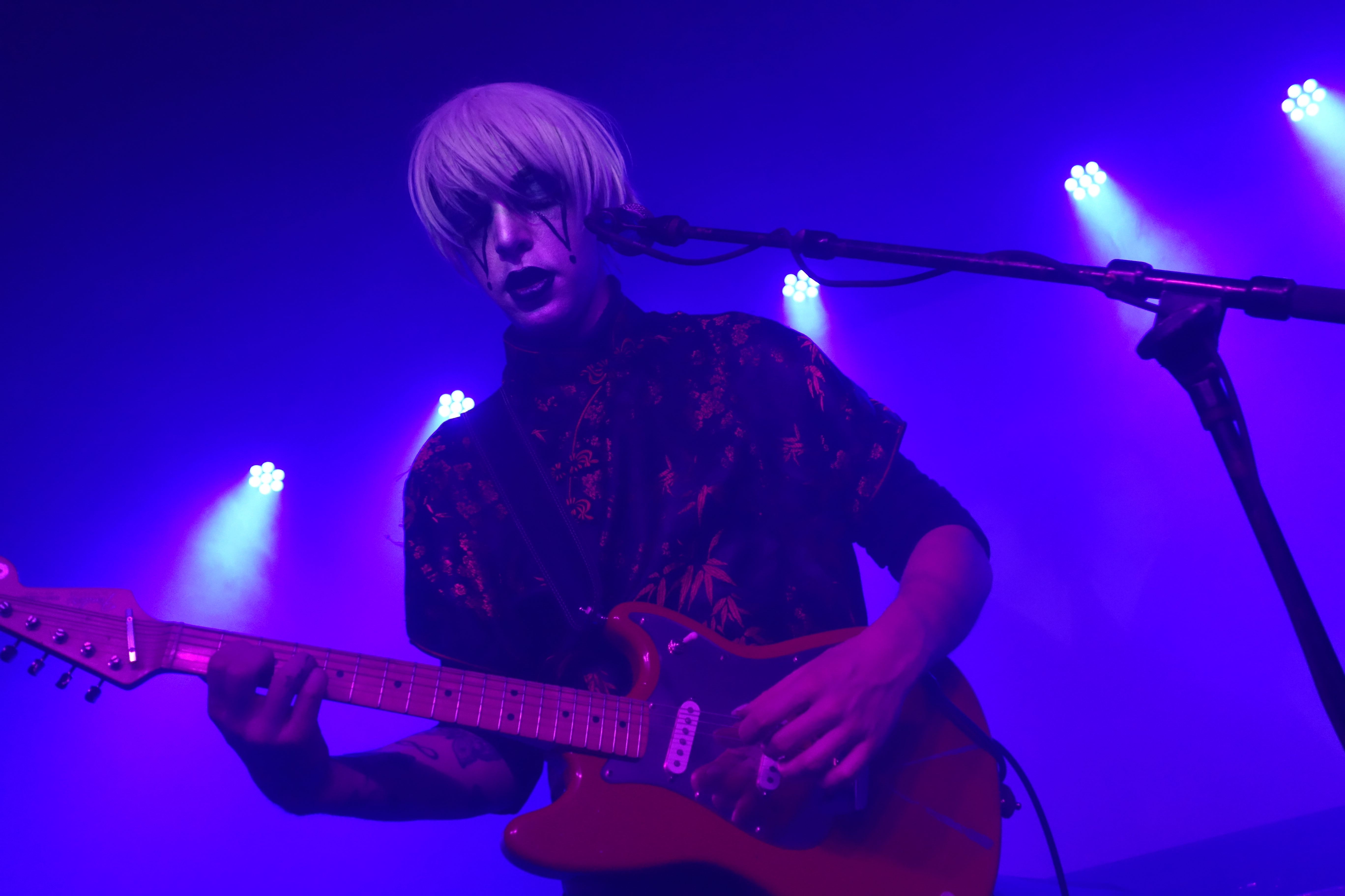 Drab Majesty performing at Saint Vitus Bar (Brooklyn, New York), April 27, 2016.